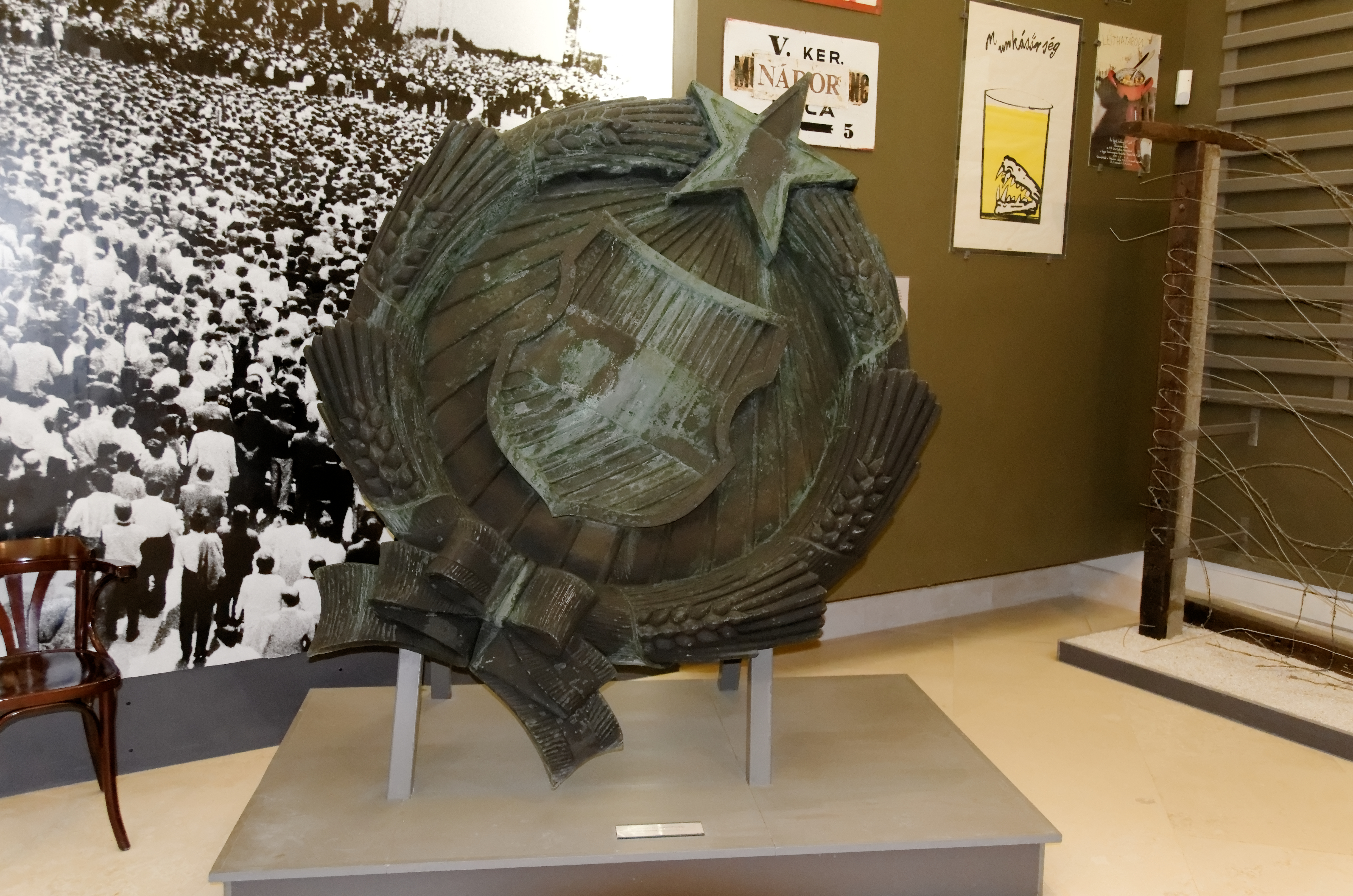 A room illustrating the communism time. Hungarian National Museum, Budapest